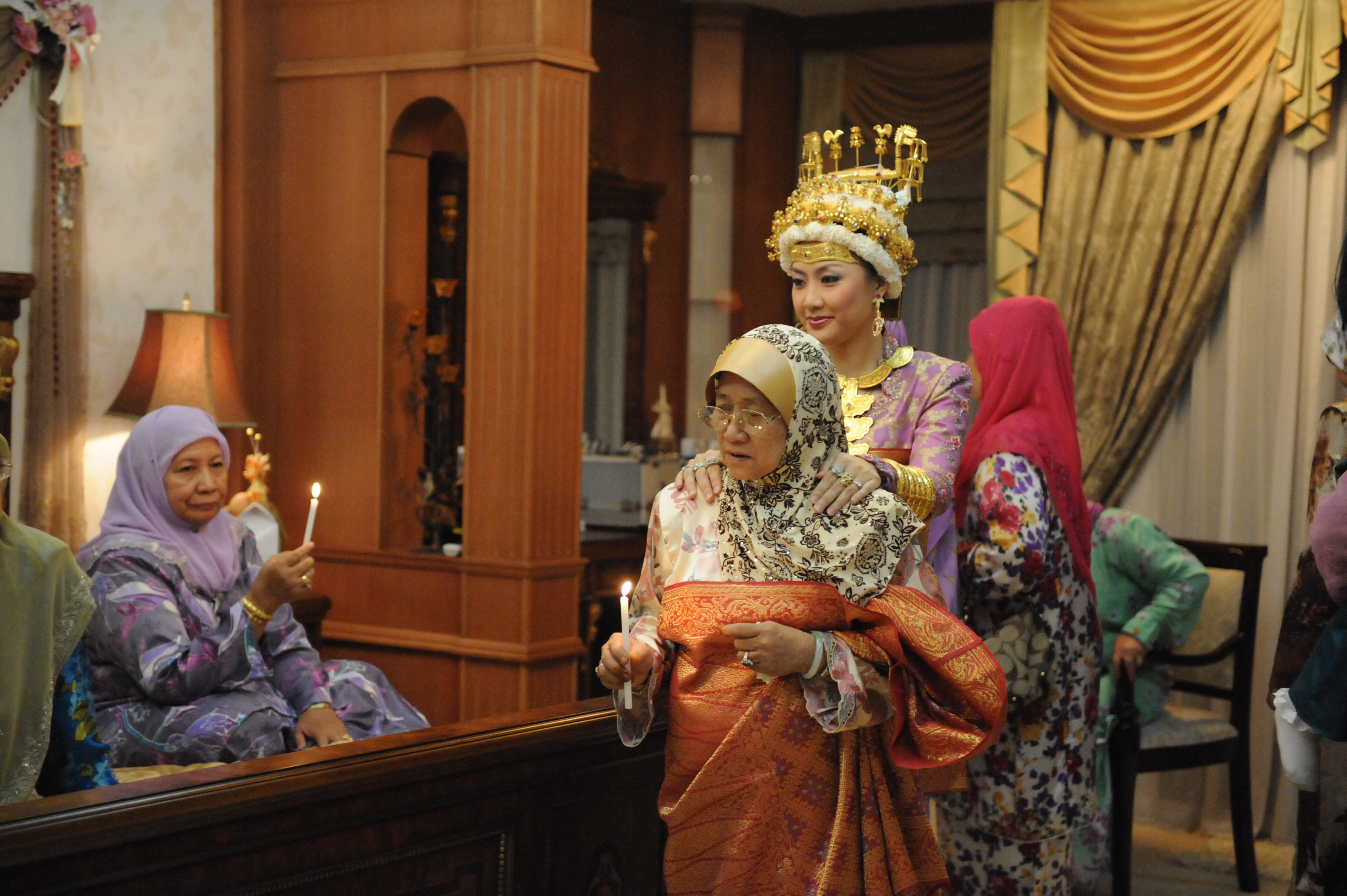 Penganggun (Wedding Attendant?) then lights 3 candles and passes them to one elderly lady sitting on the bride's bed and to another who follows behind her. The Bride then puts her arms around the Penganggun and is led around the bed behind her three times. The Bride then proceeds to sit on the bed and blows out the three candles ending the initiation. Again, this practice is only carried out in weddings from the Brunei Muara District.